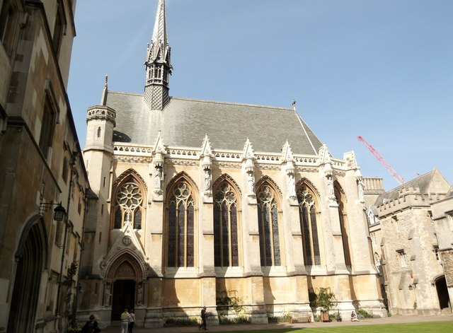 Chapel, Exeter College, Turl Street, Oxford